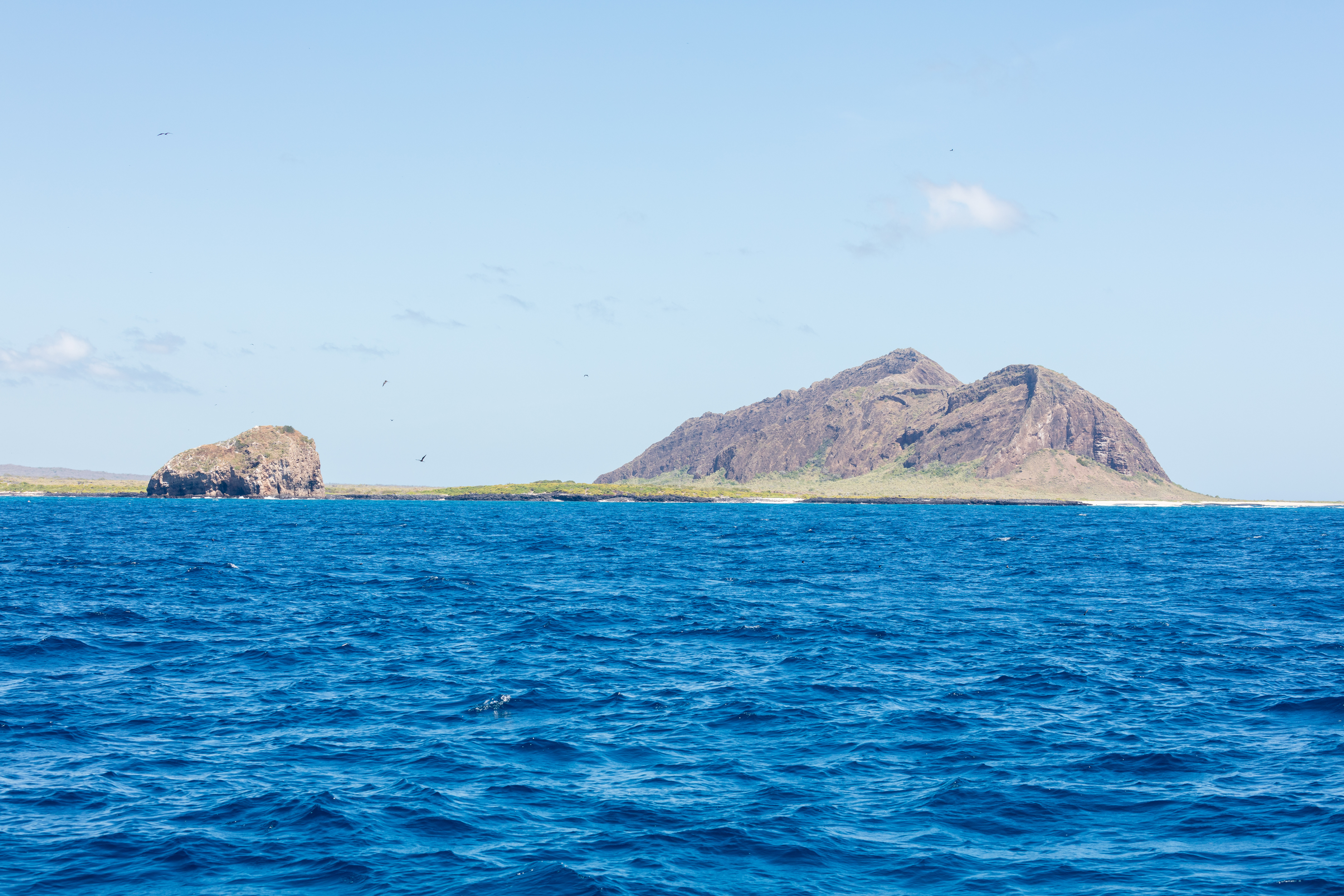 San Cristobal Island, Galapagos Islands, Ecuador